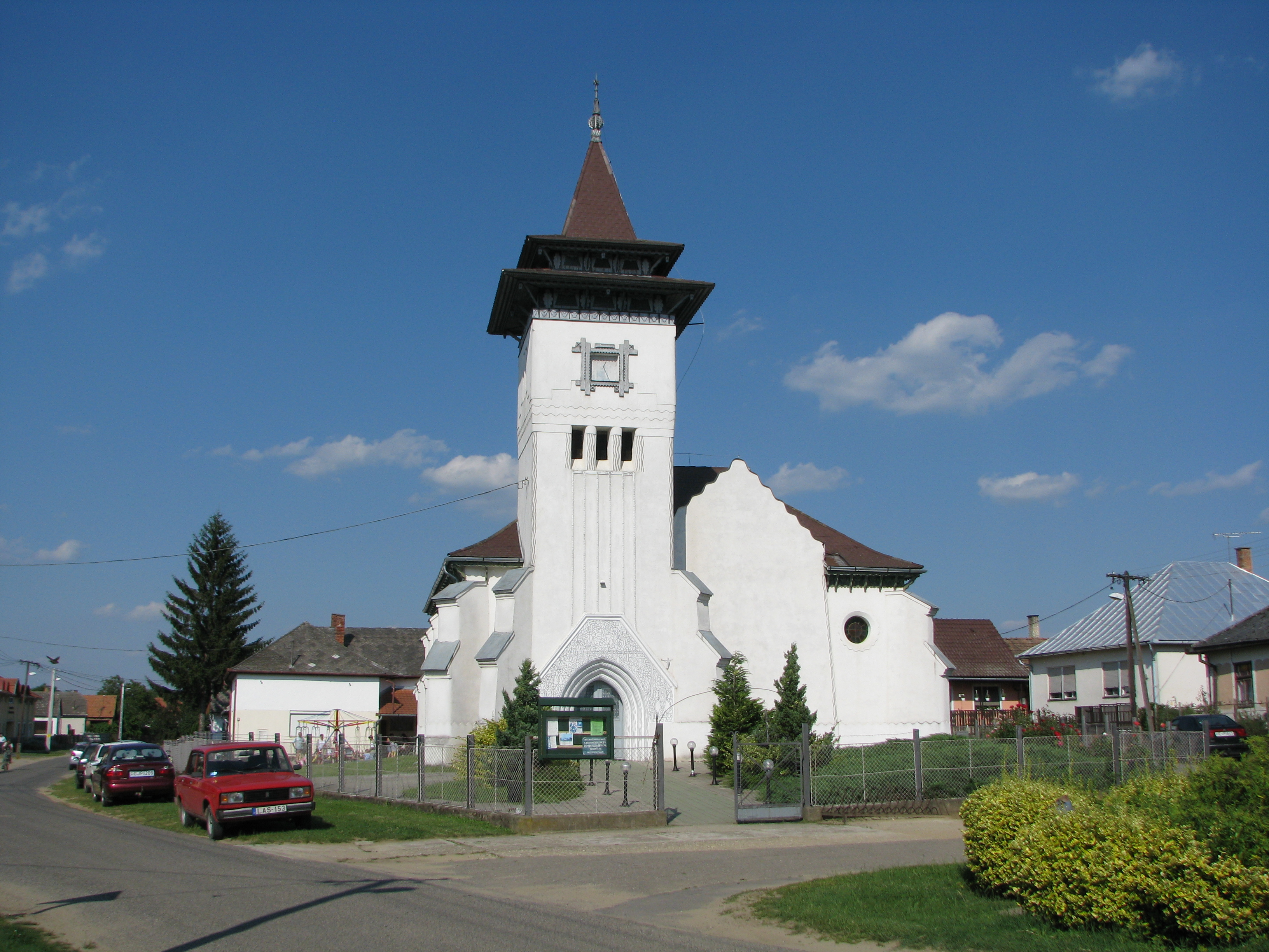 Reformed church in Nagyvarsány This is a photo of a monument in Hungary. Identifier: 8331